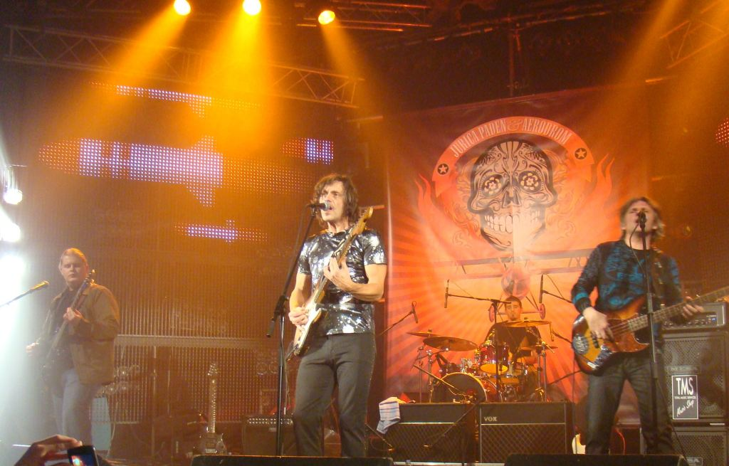 Aerodrom performing at club Tvornica in Zagreb, Croatia on November 14, 2009 Left to right: guitarist Ivan Havidić, singer/guitarist Jurica Pađen, drummer Damir Medić and bassist Tomislav Šojat.